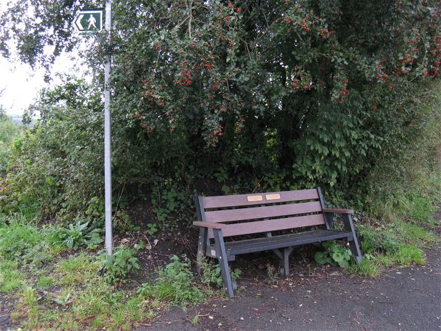 Memorial bench for Primrose Colliery disaster This bench was placed as a memorial to an accident in Primrose Colliery in 1858 which claimed the lives of 14 miners (men and boys) and 7 horses. The bench is on the southeast corner of the junction. Primrose Colliery used to be somewhere at the end of Primrose Lane which now runs west from this junction. For more details